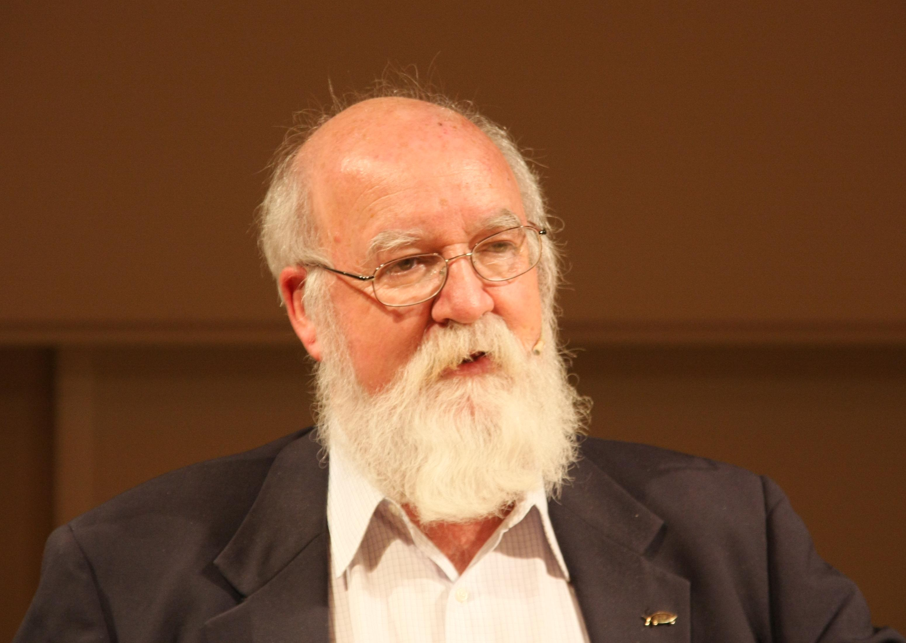 Daniel Dennett at the 17. Göttinger Literaturherbst, October 19th, 2008, in Göttingen, Germany.